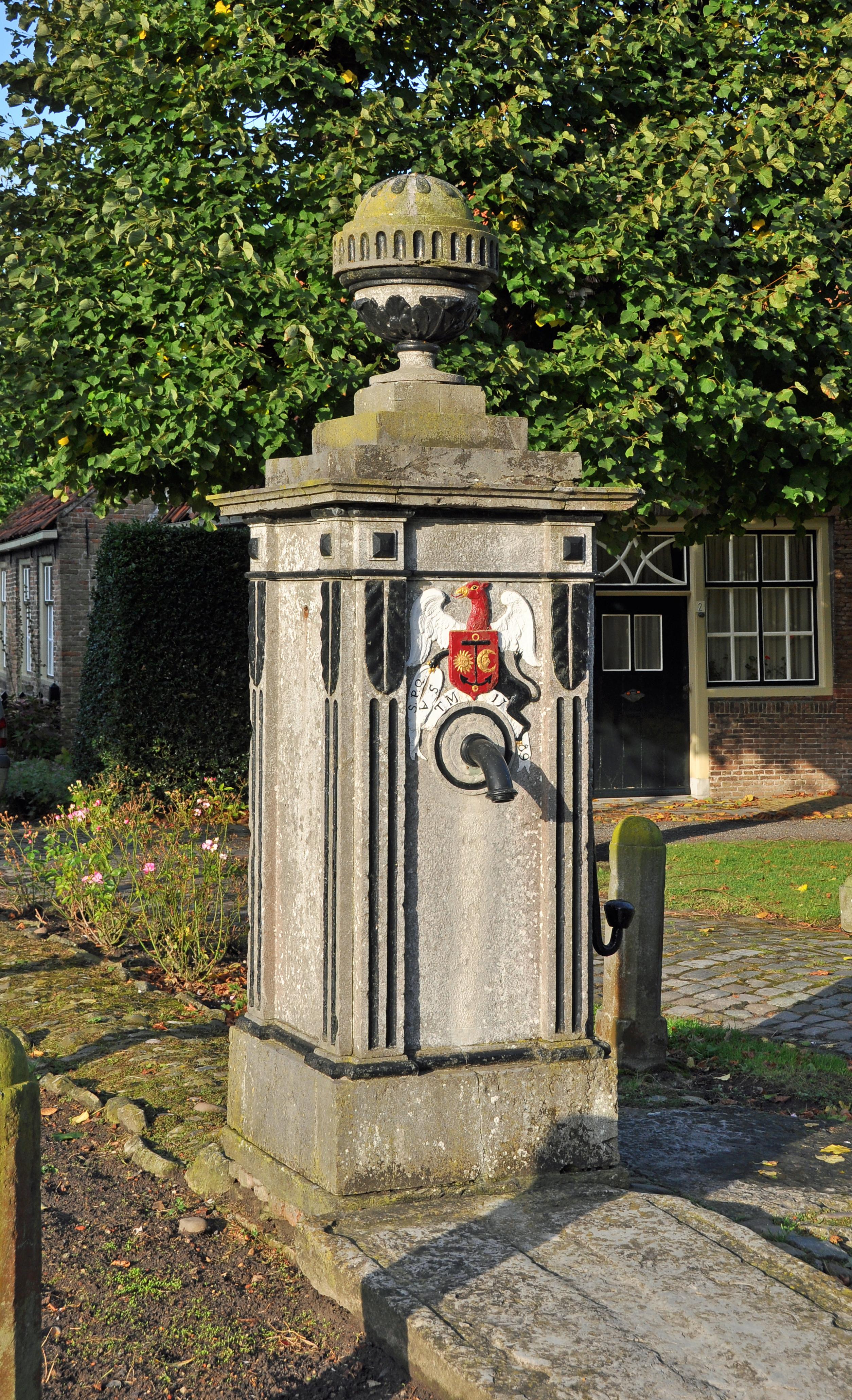 Sint Anna ter Muiden (Sluis, the Netherlands): village pump